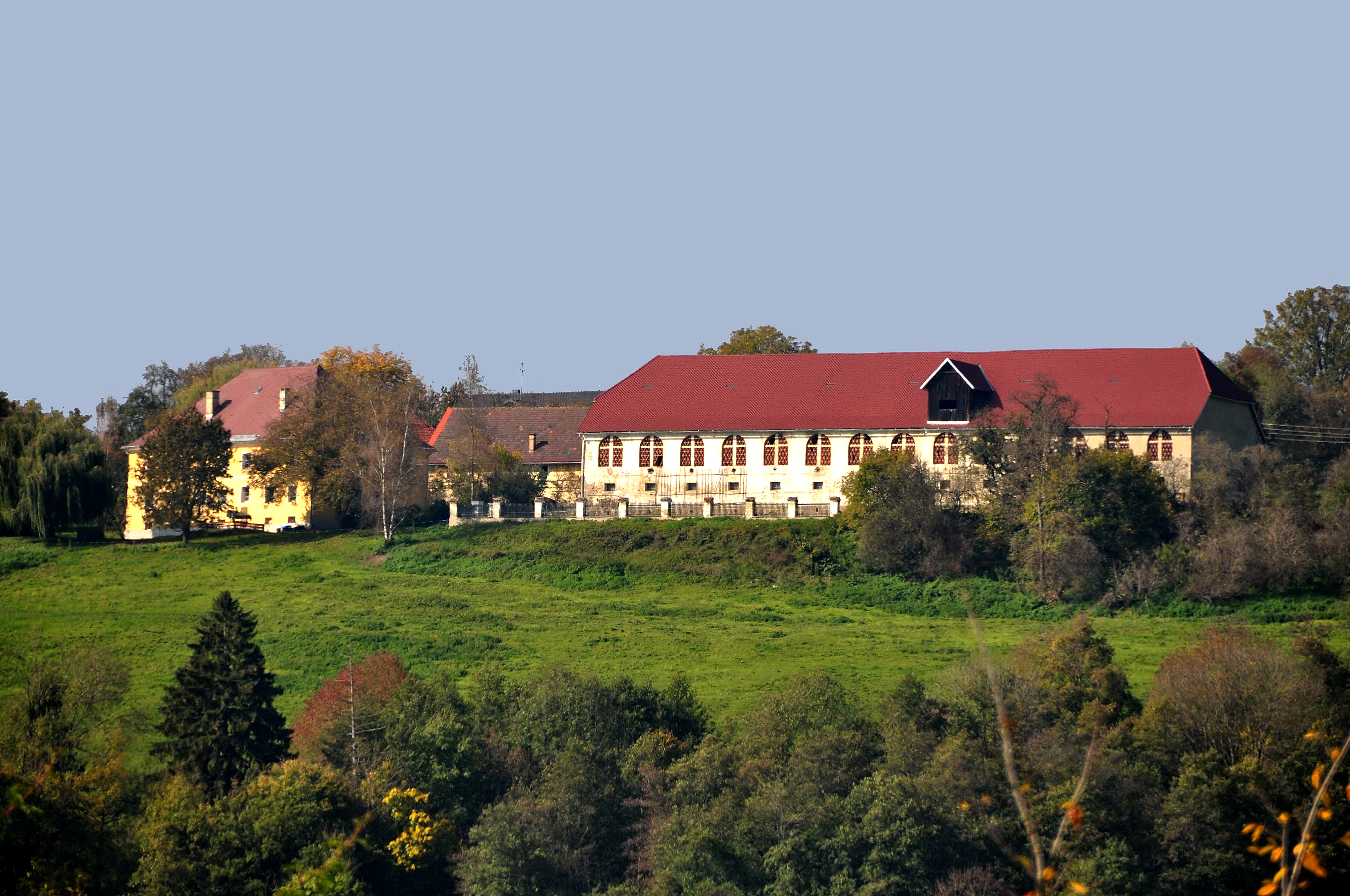 Hamlet Gersdorf in the municipality Sankt Veit an der Glan, district Sankt Veit an der Glan, Carinthia, Austria